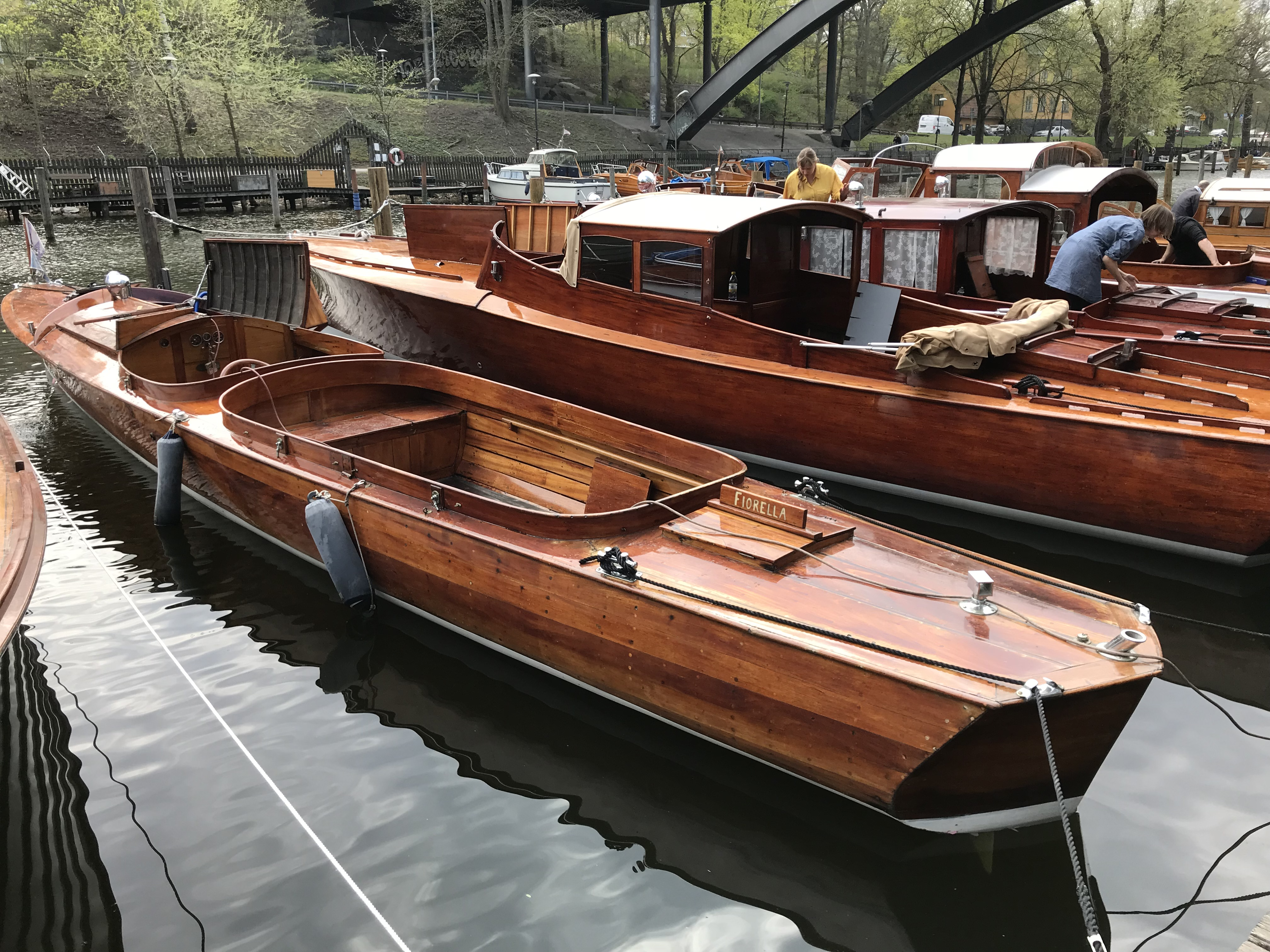 M/Y Fiorella from 1912 designed by C G Pettersson in Pålsundet in Stockholm, April 27, 2019